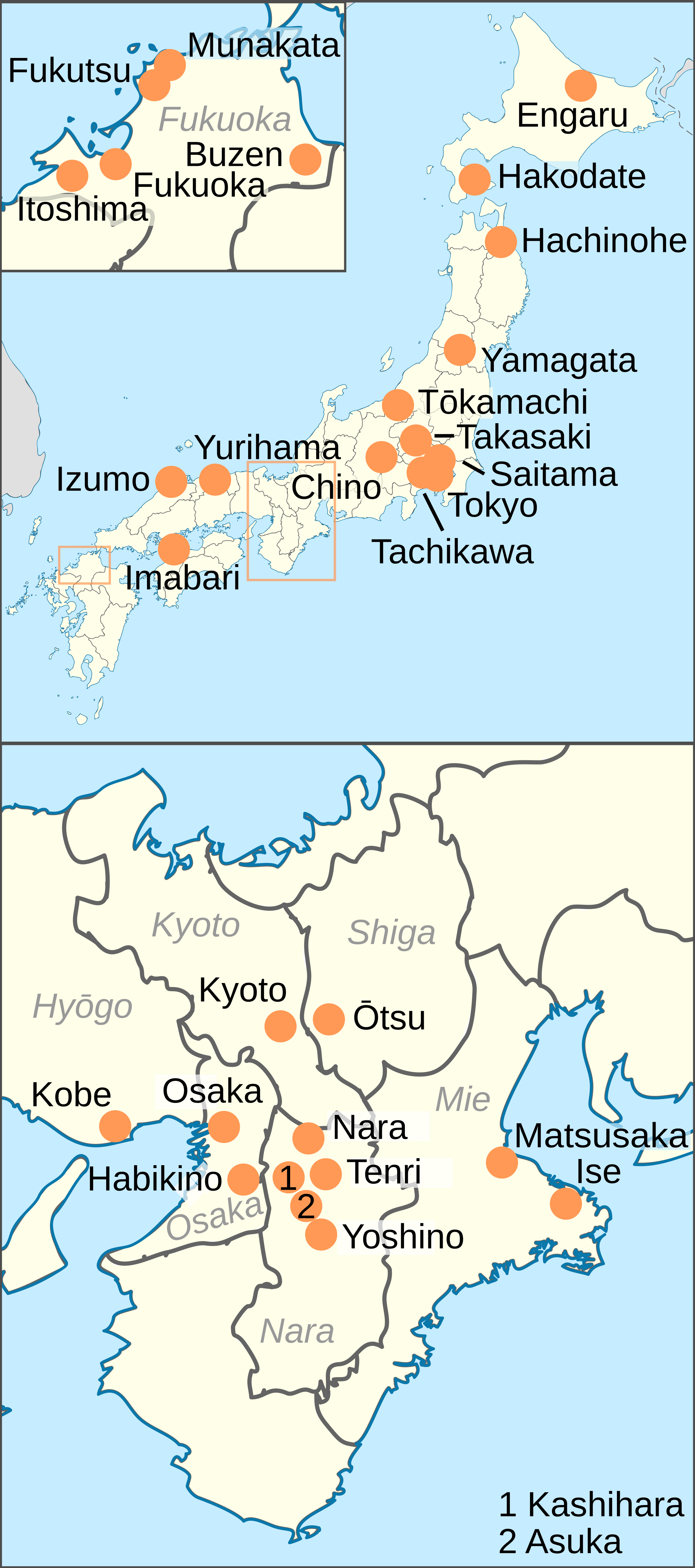 Map showing the location of National Treasures of Japan in the category archaeological materials.